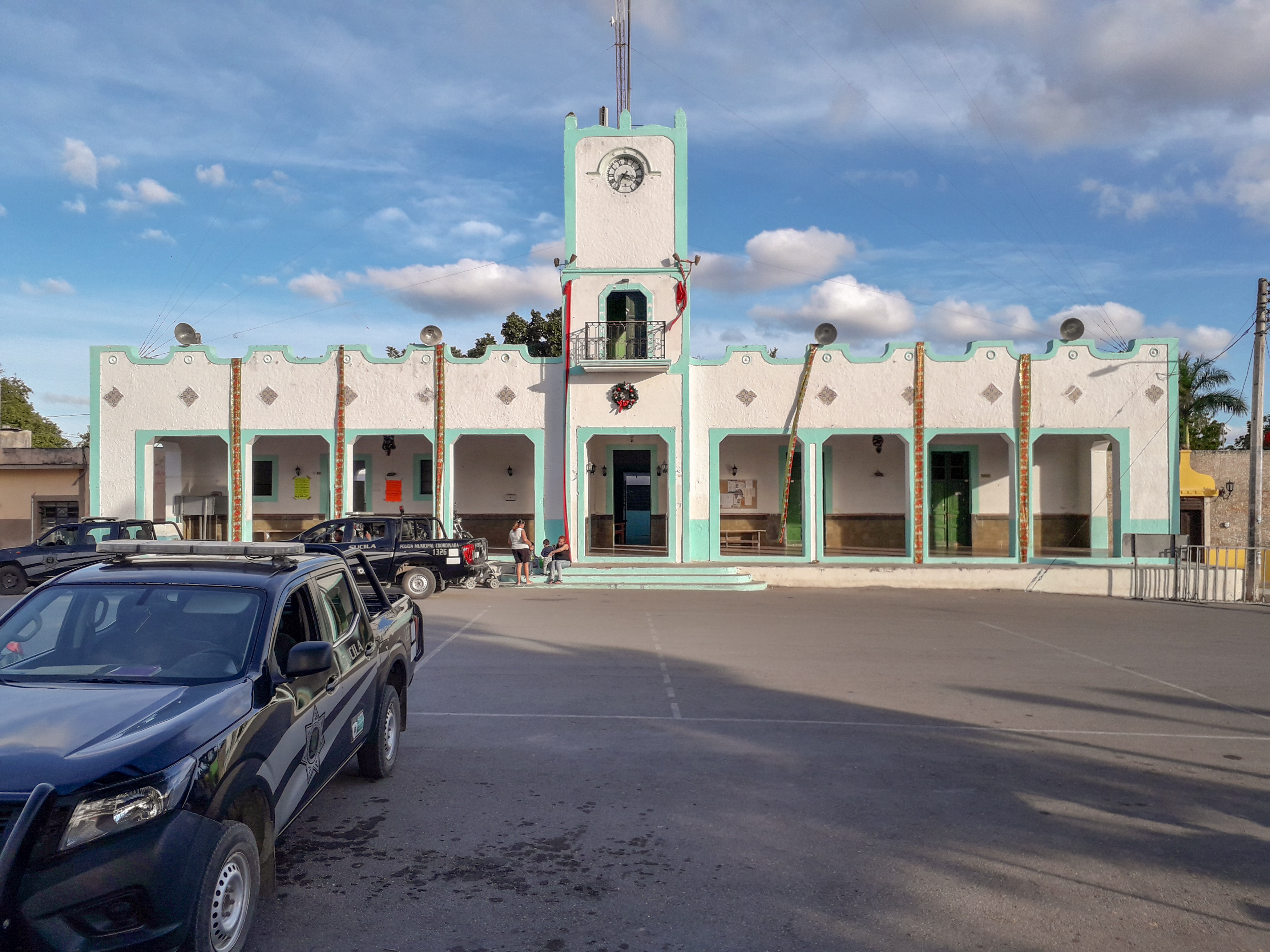 City Hall in Sucila, Yucatan.